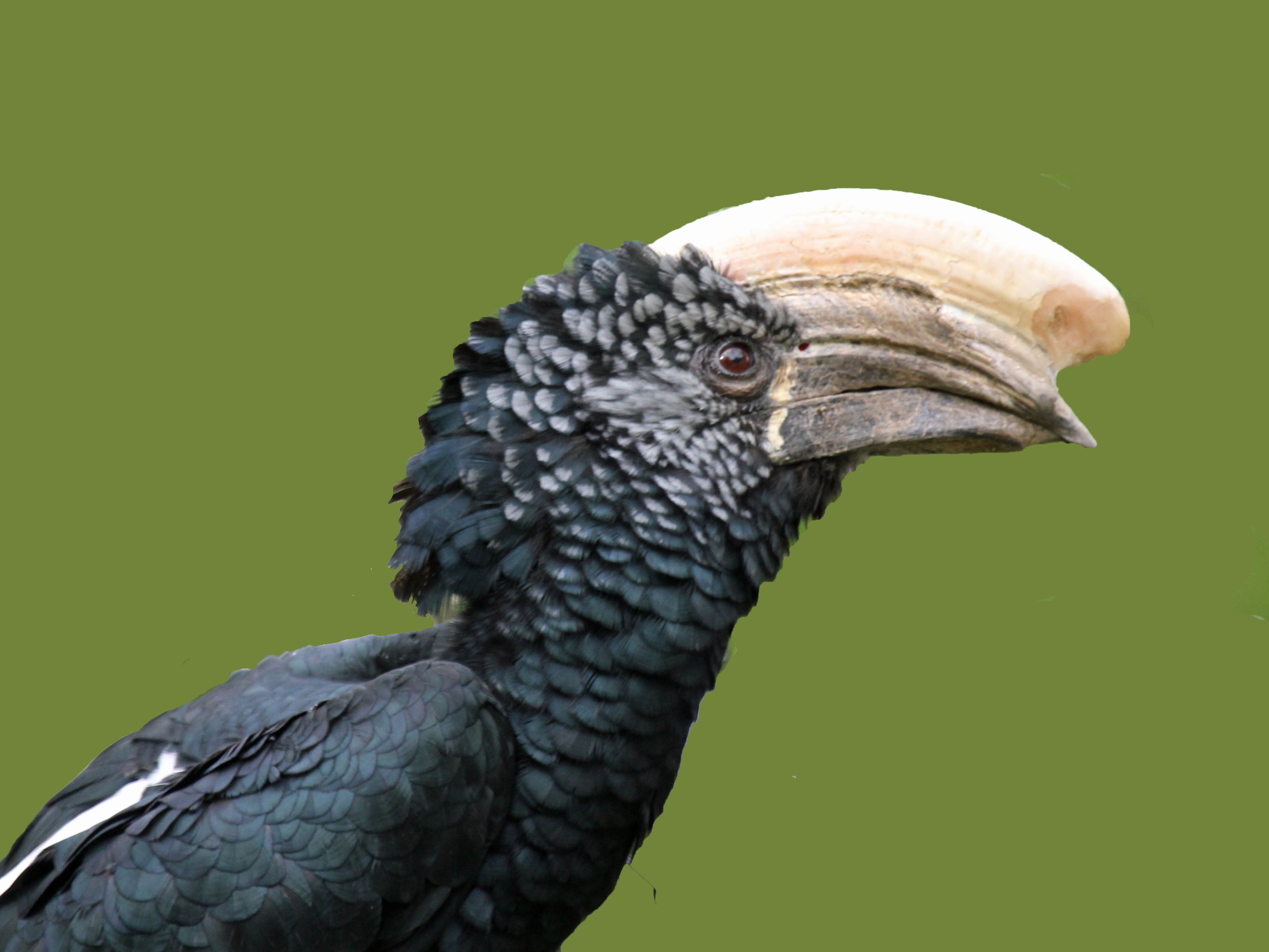 Silvery-cheeked Hornbill (Bycanistes brevis) - Sylvan Heights Waterfowl Park, Scotland Neck, North Carolina